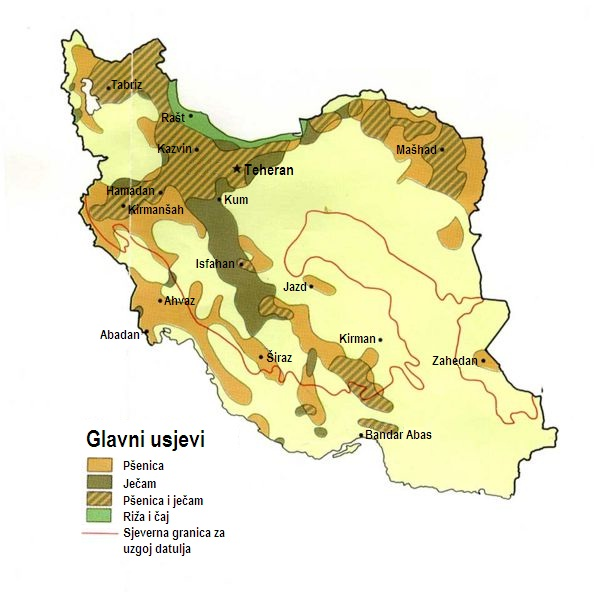 Iran Major crops, around 1978